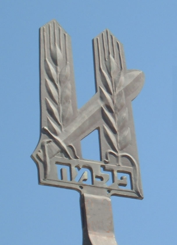 Palmach insignia